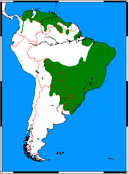 Crab-eating Fox (Cerdocyon thous) range map, made by me with help of Map depending on the range map at IUCN red list.